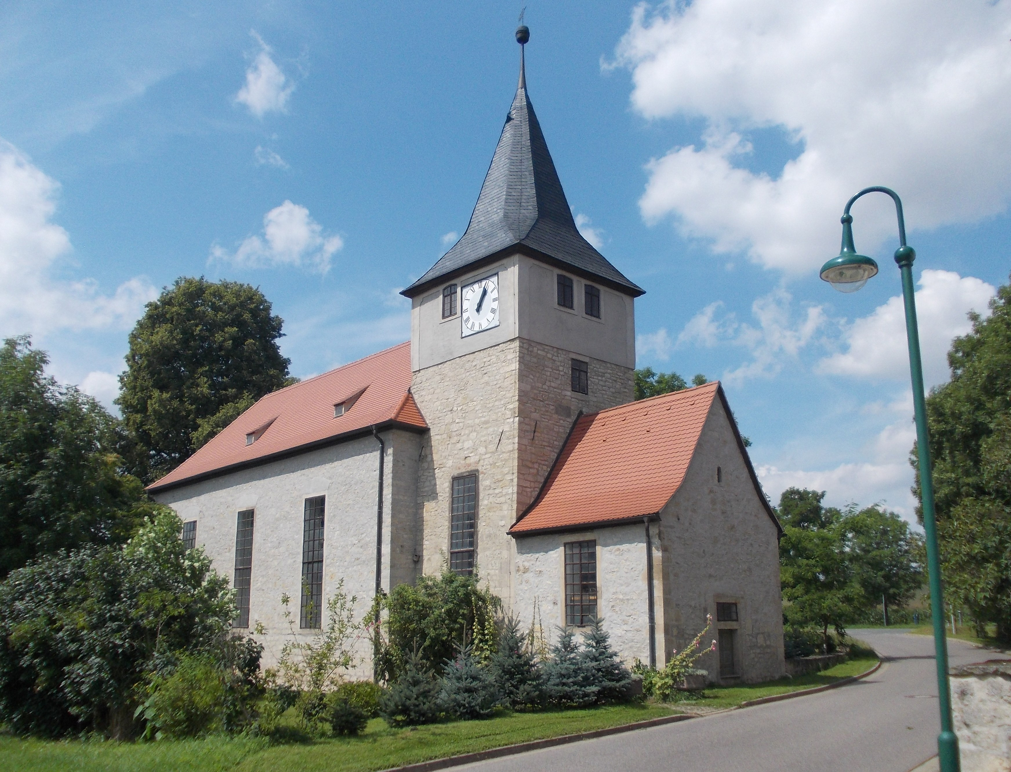 St. Martin's Church in Spielberg (Lanitz-Hassel-Tal, district: Burgenlandkreis, Saxony-Anhalt)